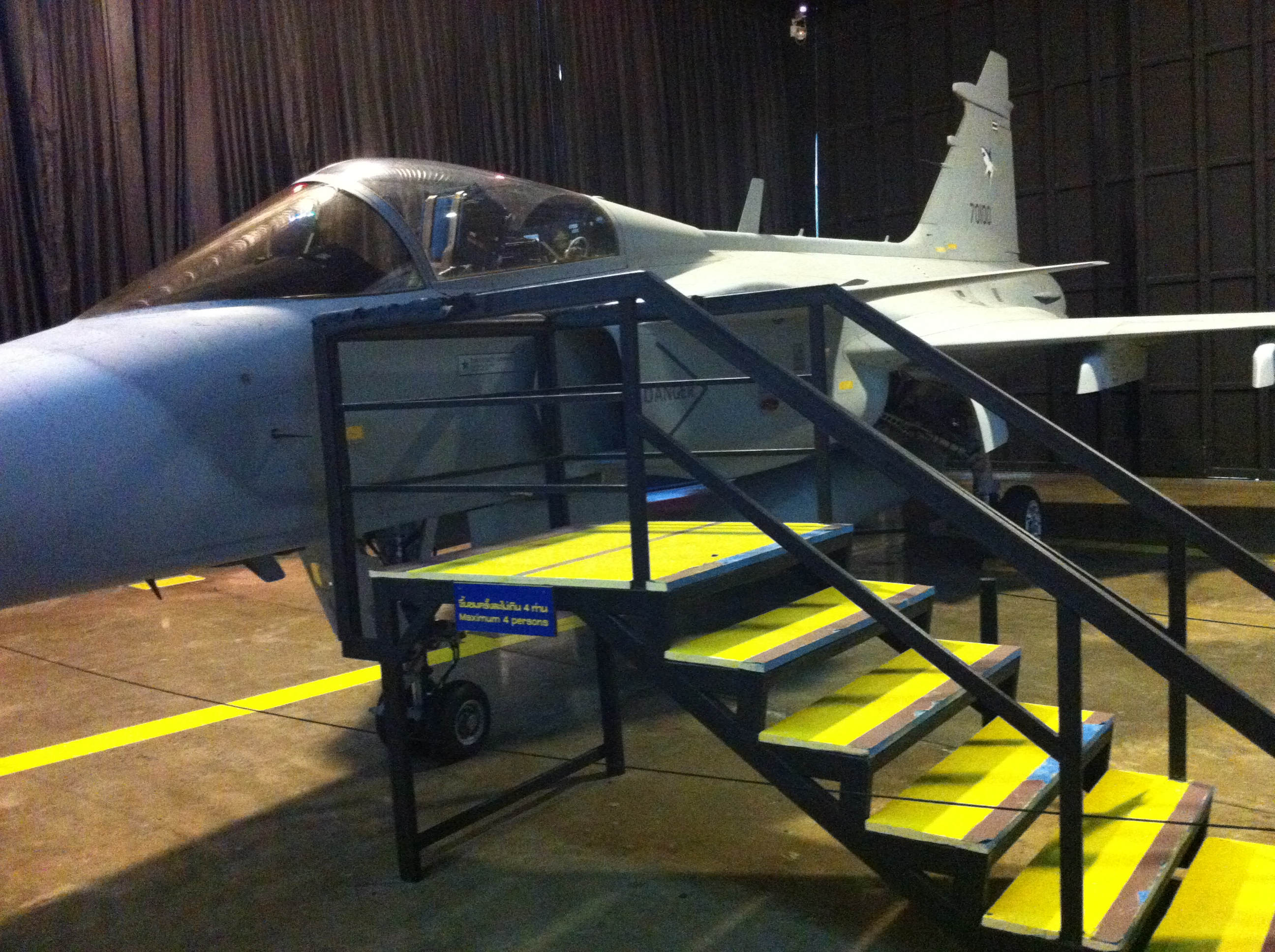 JAS 39A Gripen, serial number 39178, which was donated by the company Saab, during spring year 2012, in conjunction with the Royal Thai Air Force 100th anniversary. Which took place on 2 November 2013. The aircraft has never served in the Royal Thai Air Force.